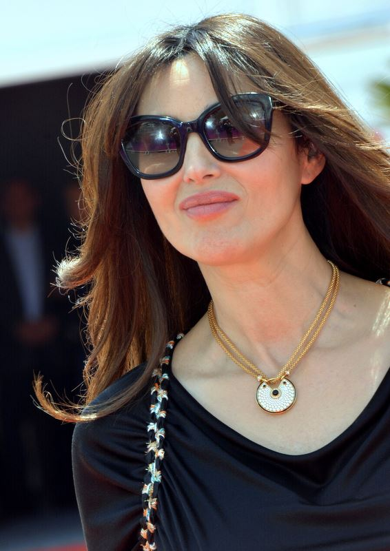 Monica Bellucci in 2017